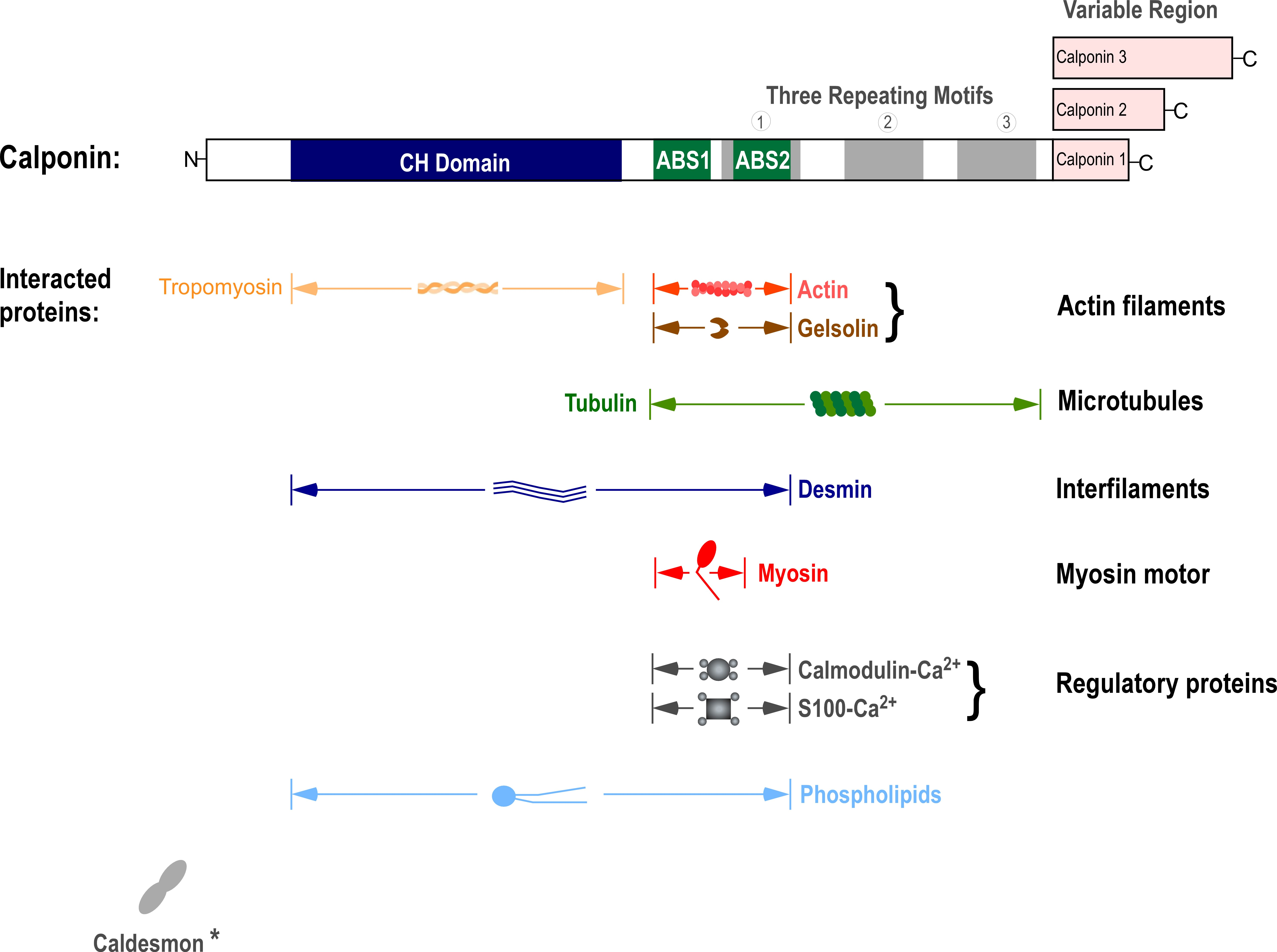 Calponin interacted proteins